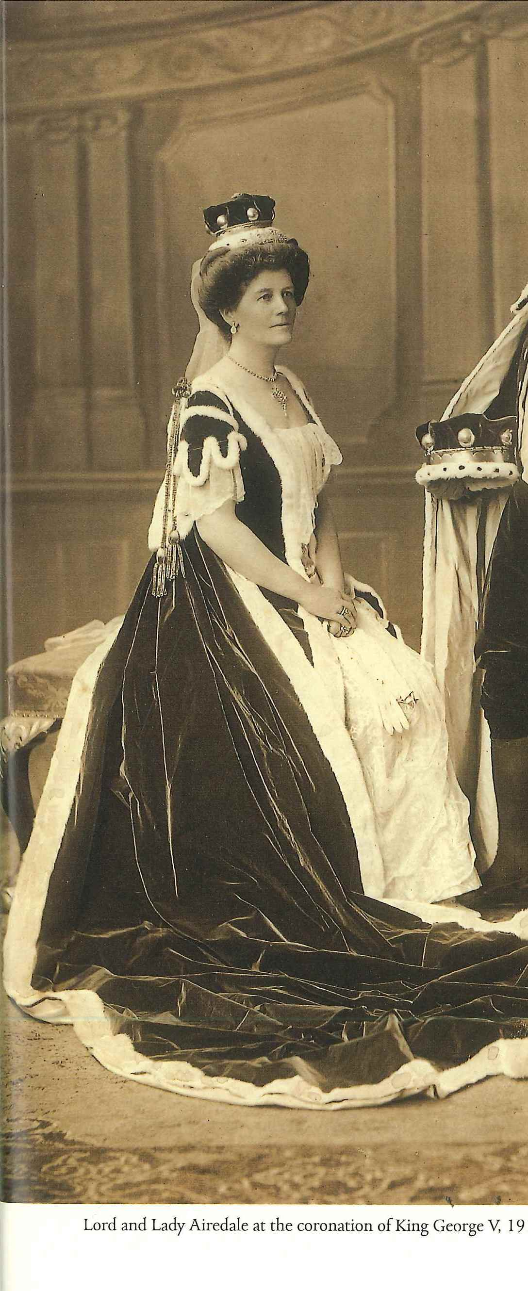 Olive Middleton's cousin, Baroness Airedale at 1911 King George V's coronation